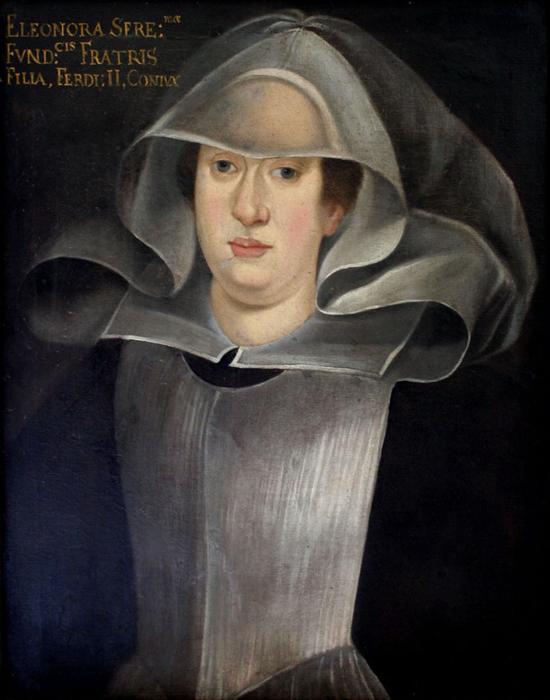 Eleonora Gonzaga (1598–1655)